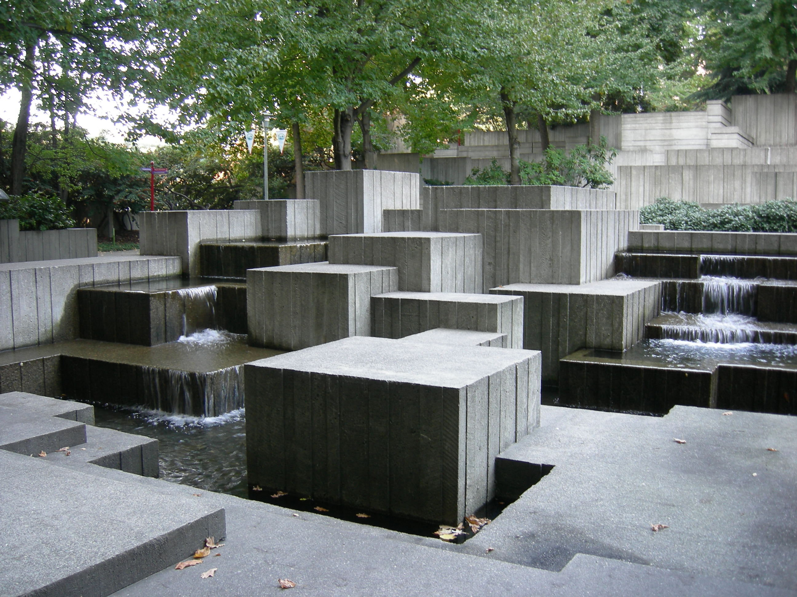 Brutalist fountain, Freeway Park, Seattle, Washington.